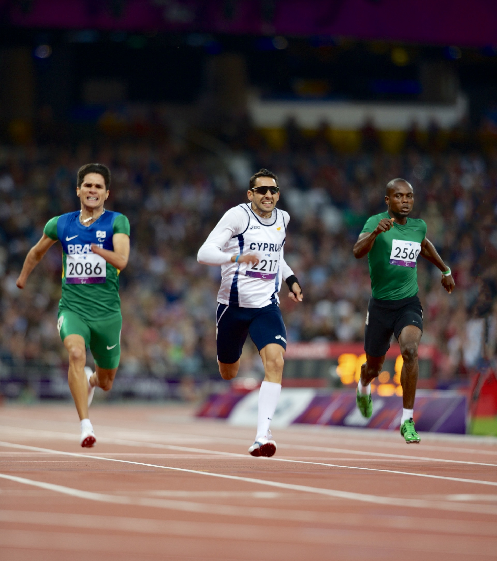 Antonis Arestis crossing the finish line of the 400m T46 qualifying race for the London 2012 Paralympics. Photo by Selene Alexia.